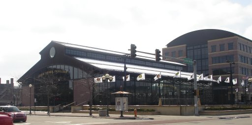 The John Deere Pavilion in Moline, Illinois. I took this in March of 2006. Jesster79 06:18, 7 March 2006 (UTC)